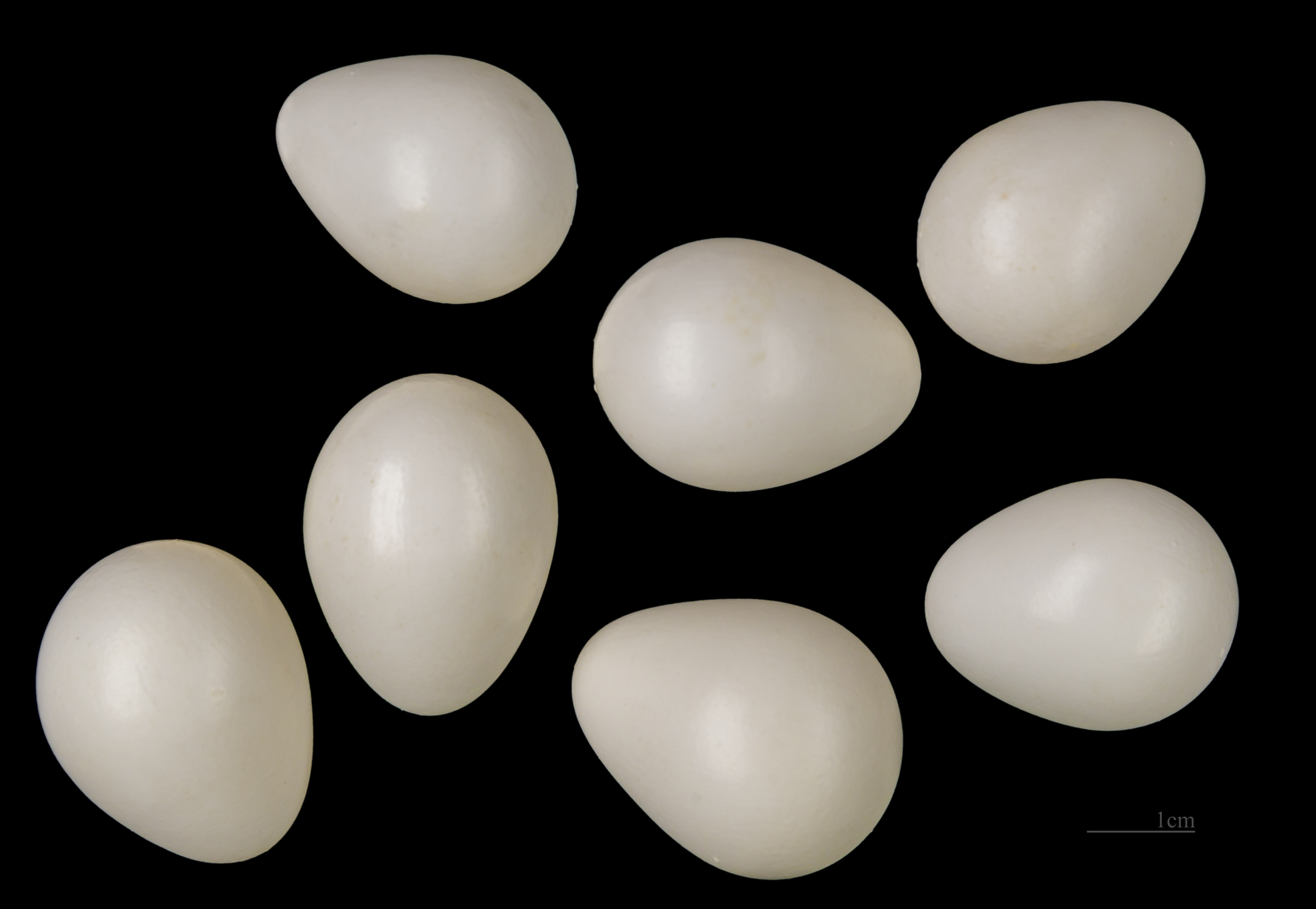 Egg of Grey-headed Woodpecker. Collection of Jacques Perrin de Brichambaut.